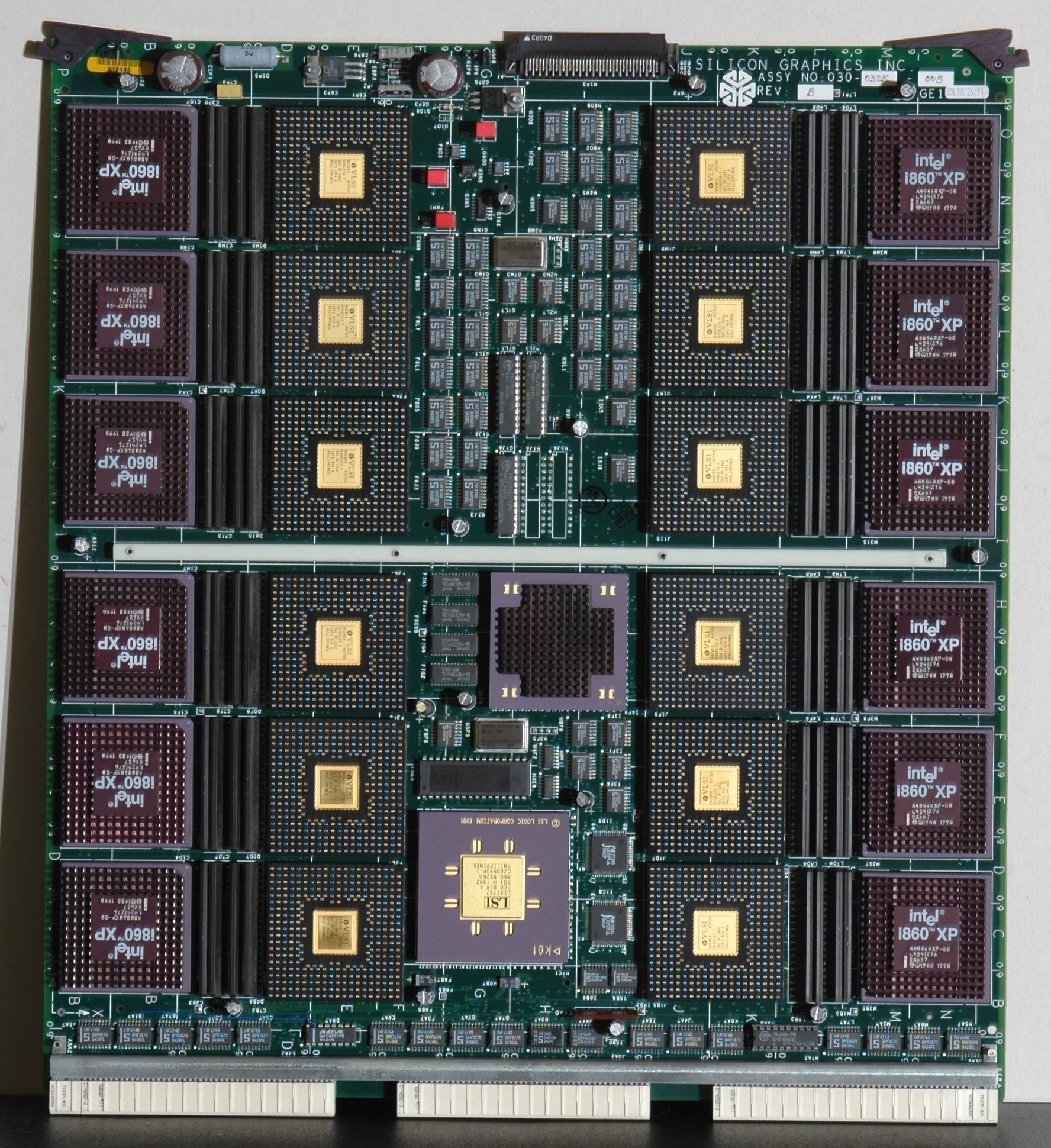 SGI GE10V Geometry Engine board from a Reality Engine 2 graphics system. From the collection of the RCS/RI.